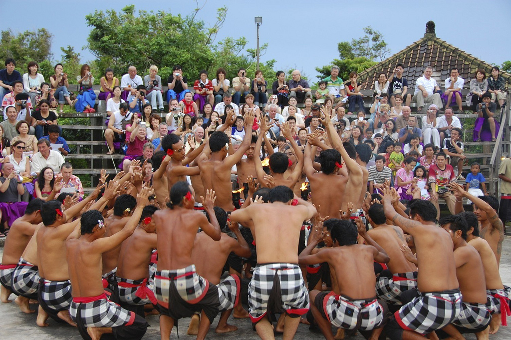 Kecak dance performed at Uluwatu Temple amphitheatre